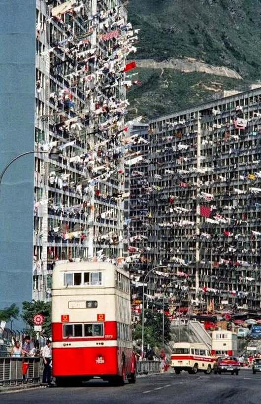 The Tsz Wan Shan Estate built in the 1960s. Before the redevelopment in 1990s, there are totally 63 blocks inside the estate. All the blocks at that time are belong to the type 3 to 6 of Hong Kong Resettlement Block.